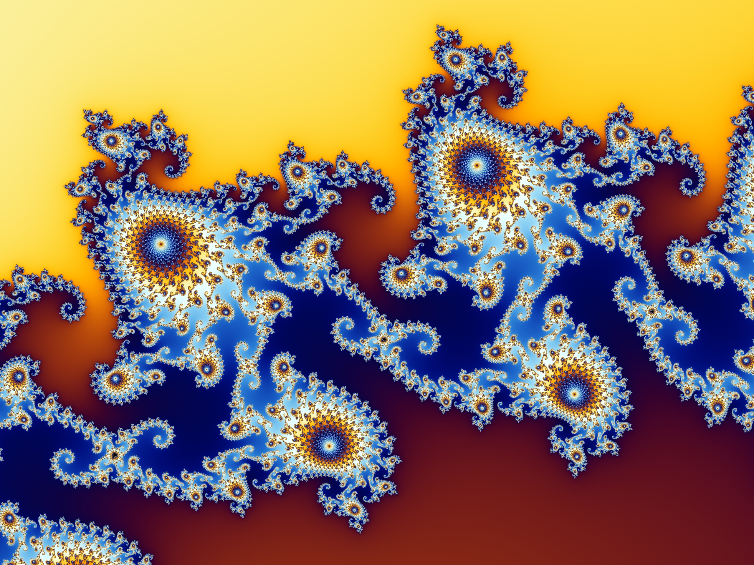 Partial view of the Mandelbrot set. Step 5 of a zoom sequence: Part of the "tail". There is only one path consisting of the thin structures which leads through the whole "tail". This zigzag path passes the "hubs" of the large objects with 25 "spokes" on the inner and outer sides of the "tail". It makes sure, that the Mandelbrot set is a so called simply connected set. That means there are no islands and no loop roads around a hole. Coordinates of the center: Re(c) = -.743,649,90, Im(c) = . 131,882,04 Horizontal diameter of the image: .000,738,01 Magnification relative to the initial image: 4,169.2 Created by Wolfgang Beyer with the program Ultra Fractal 3. Uploaded by the creator.